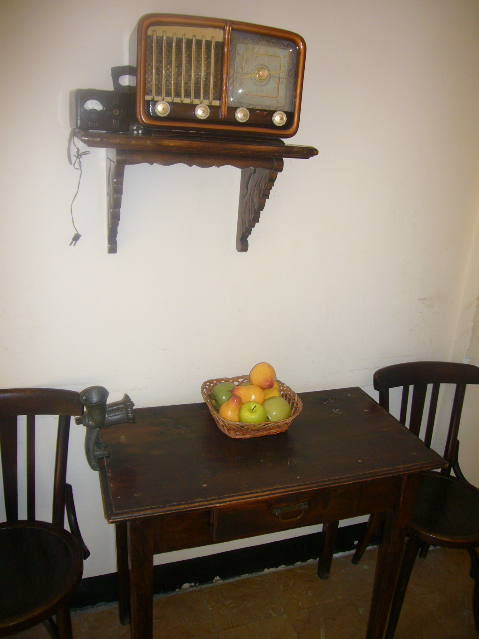 Cercs mining museum. Home of a miner.